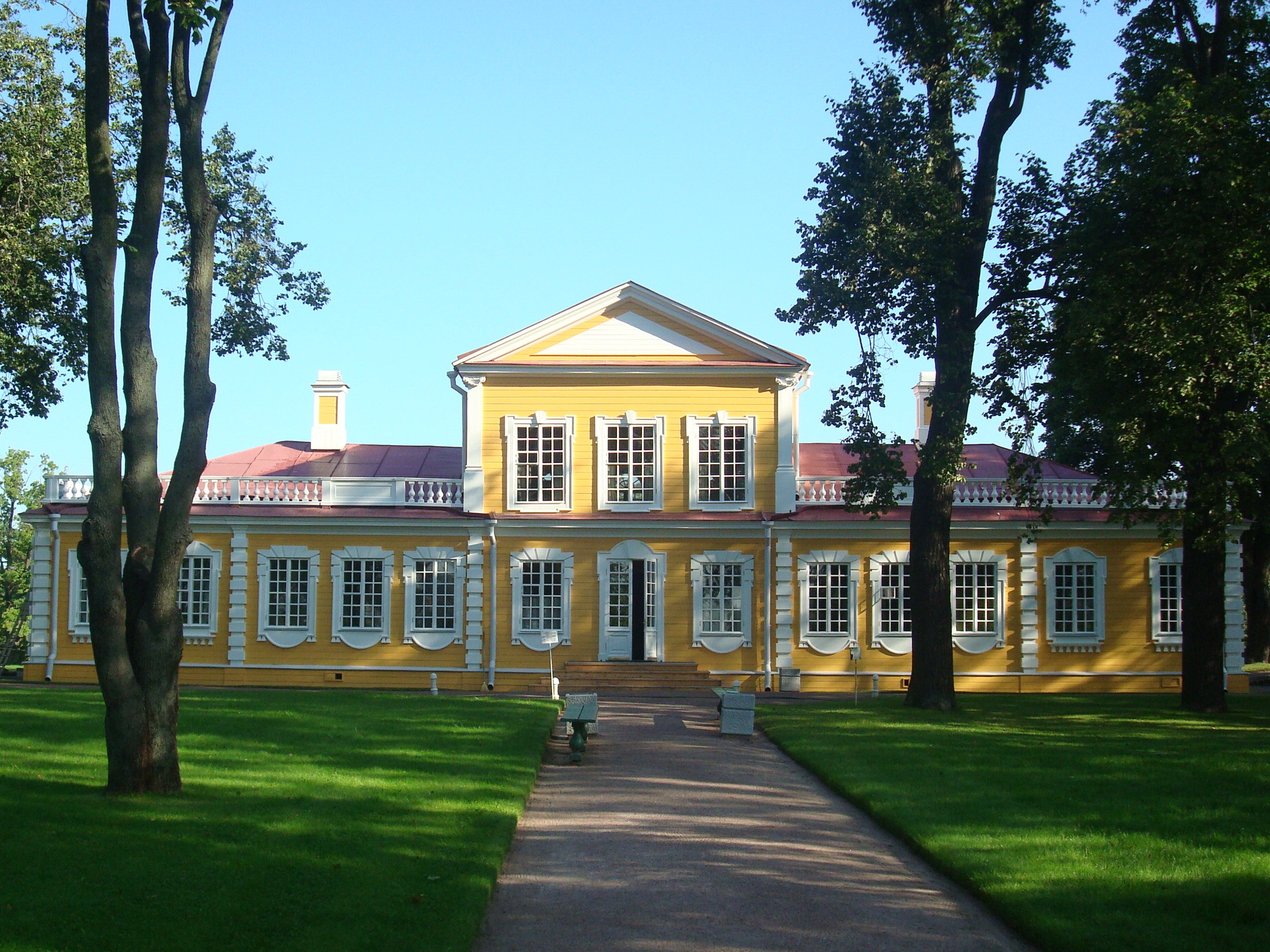 Peter the Great's travel palace in Strelna, St. Petersburg, Russia